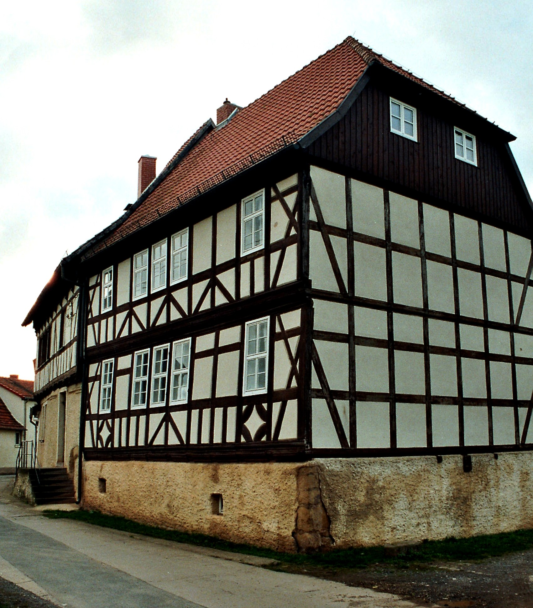 Bennungen (Südharz), house 103 Mühlgasse (former manor house)This is a photograph of an architectural monument. 83394